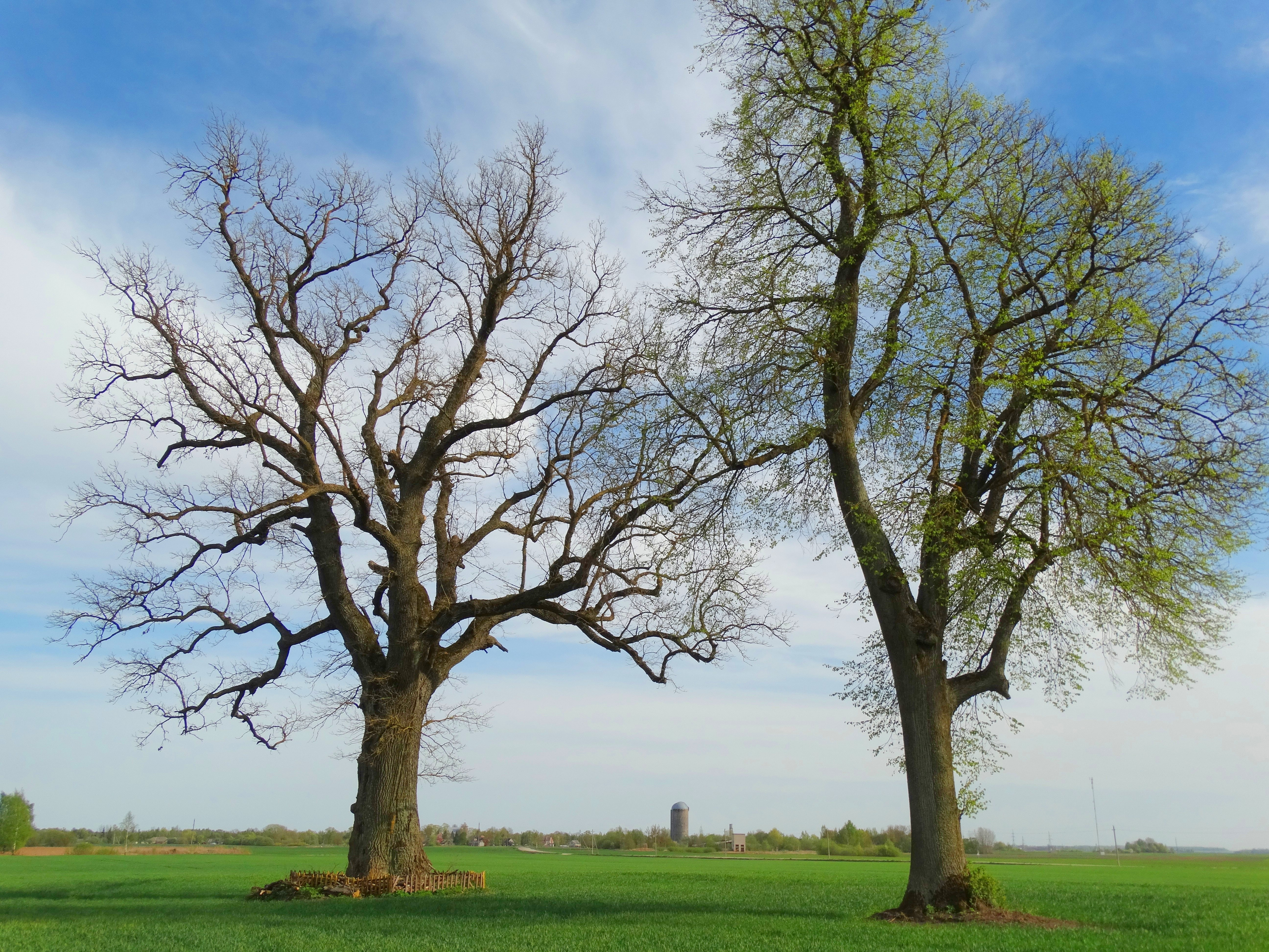 Žvirbliniai, oak, Pakruojis District, Lithuania